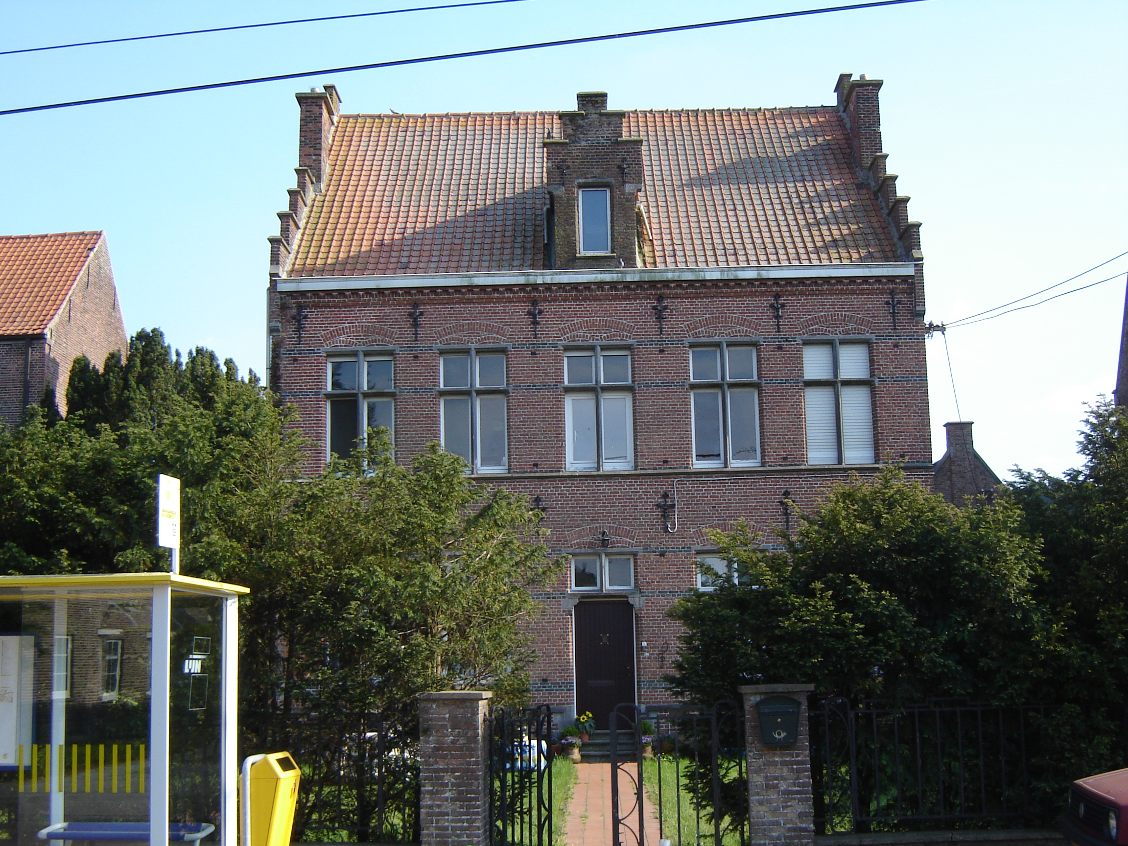 Former rectory in 's Gravenjansdijk. 's Gravenjansdijk, Bassevelde, Assenede, East Flanders, Belgium